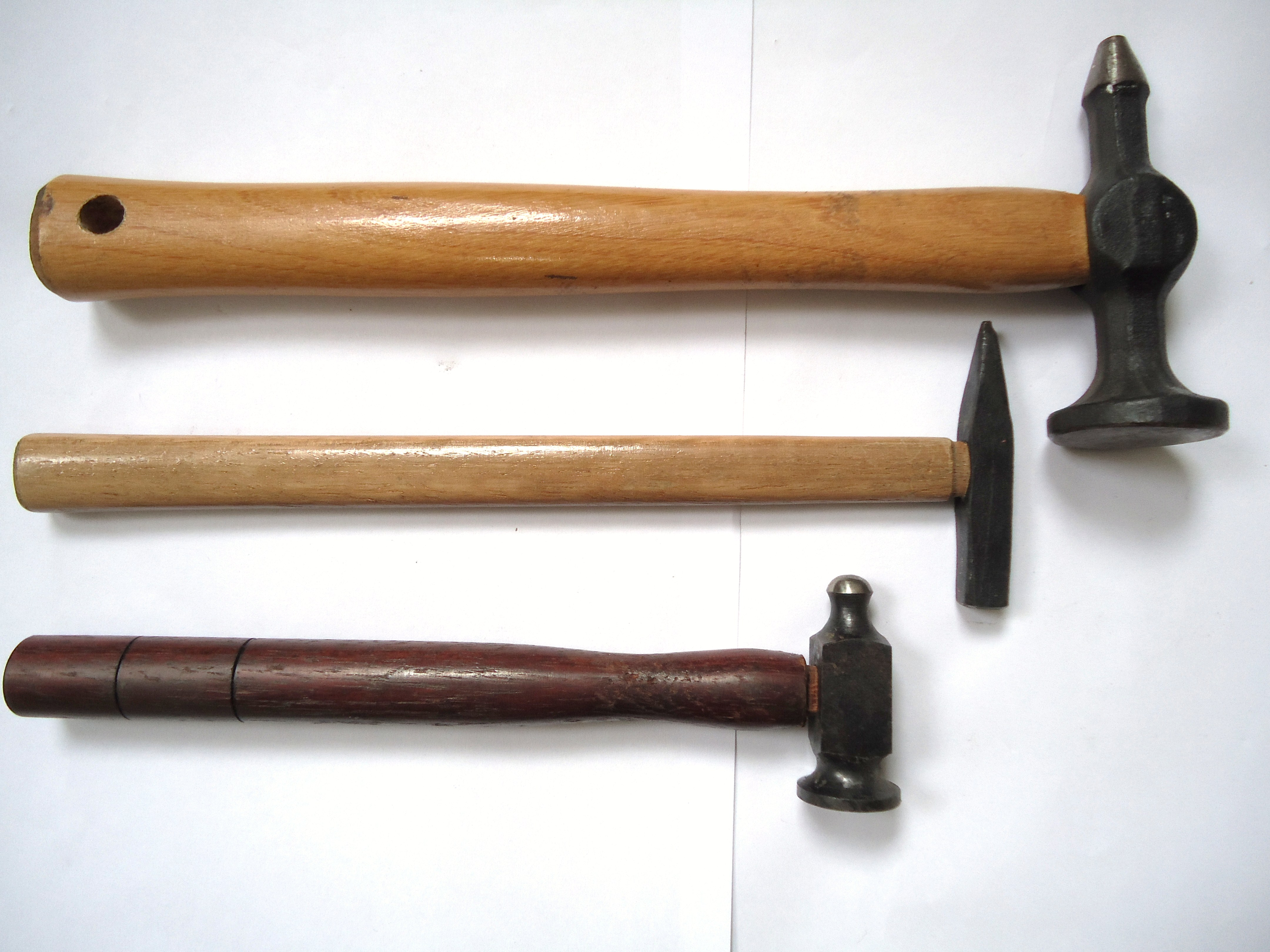 Some hammers used in jewellery. Photo : Mauro Cateb, Brazilian jeweler.